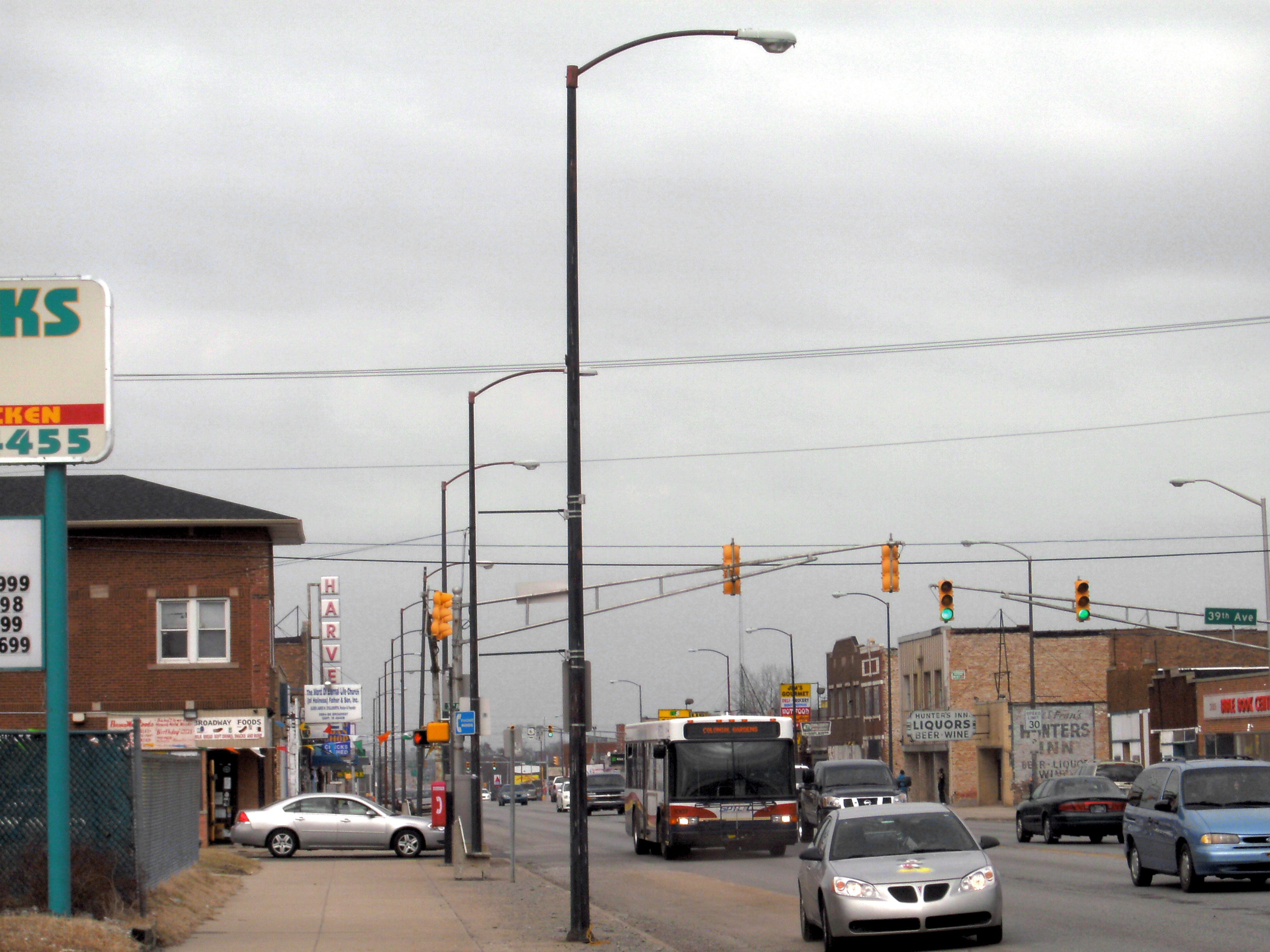 Bustling Glen Park Gary, Indiana looking North along Broadway